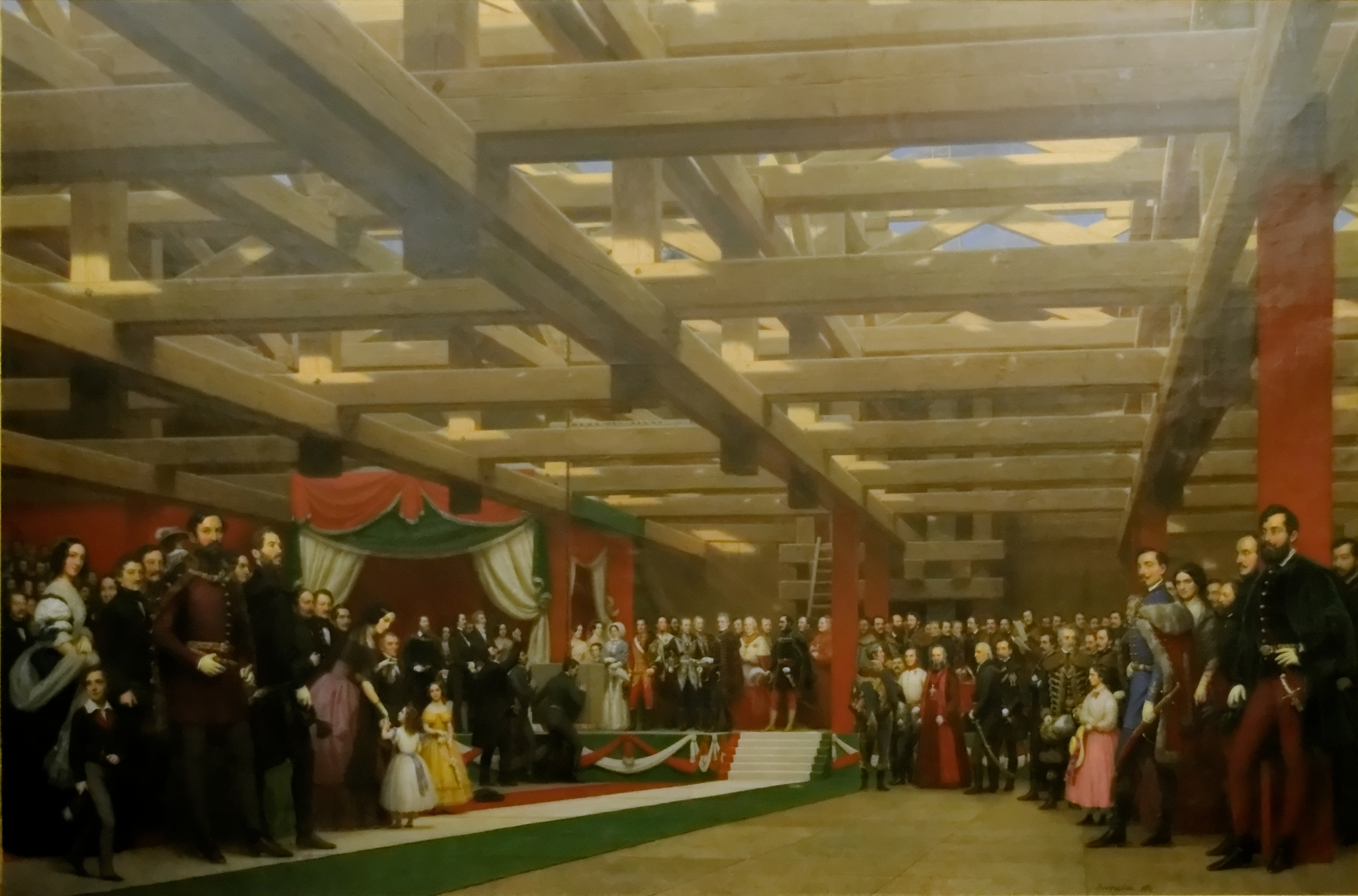 Laying the Foundation stone for Chain Bridge in 1842. Painted in 1864 by Barabás Miklós. Exposed in Hungarian National Museum, Budapest.[1]